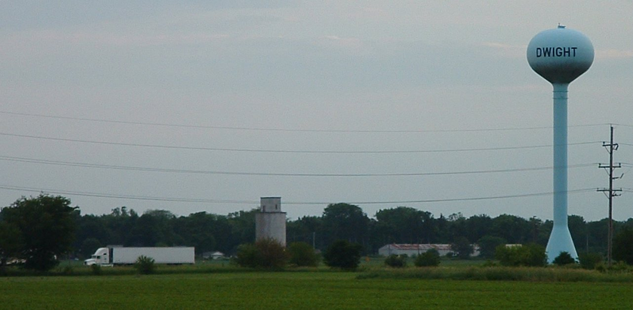 Dwight, Illinois, looking south from near the intersections of Interstate 55 and Illinois Route 47 north of the city. Photograph taken June 14, 2006 by Kelly Martin.